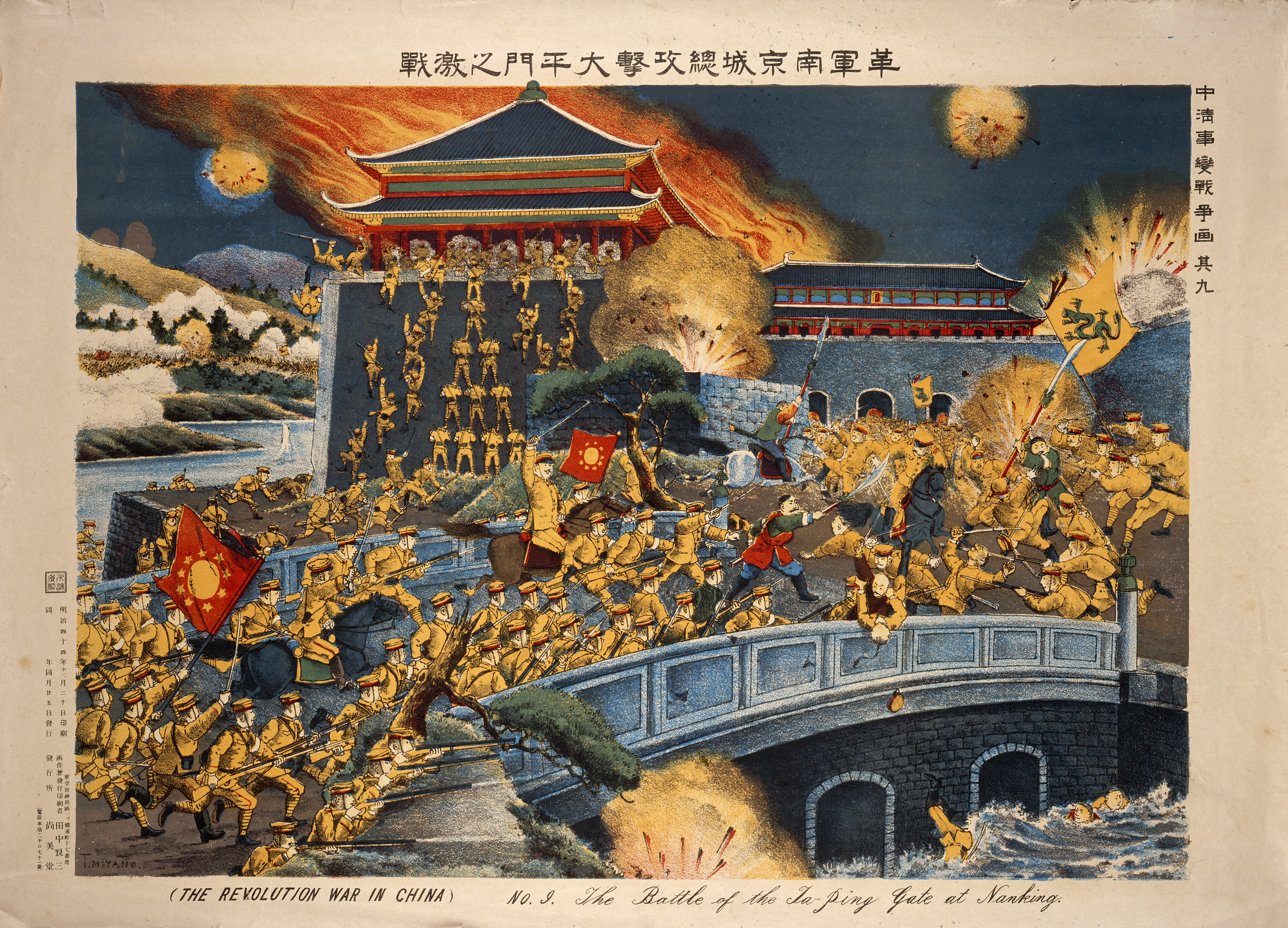 L0040002 An episode in the revolutionary war in China, 1911: the battle at the Ta-ping gate at Nanking. Colour Lithograph 1911 By: T. Miyano Printed: Japan 1920's Collection: Iconographic Collections Library reference no.: Iconographic Collection 645501i Full Bibliographic Record Link to Wellcome Library Catalogue